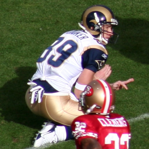 Jeff Wilkins, kicker of the St. Louis Rams, attempts a field goal in a game against the San Francisco 49ers. Dane Looker, wide receiver, held the snap.